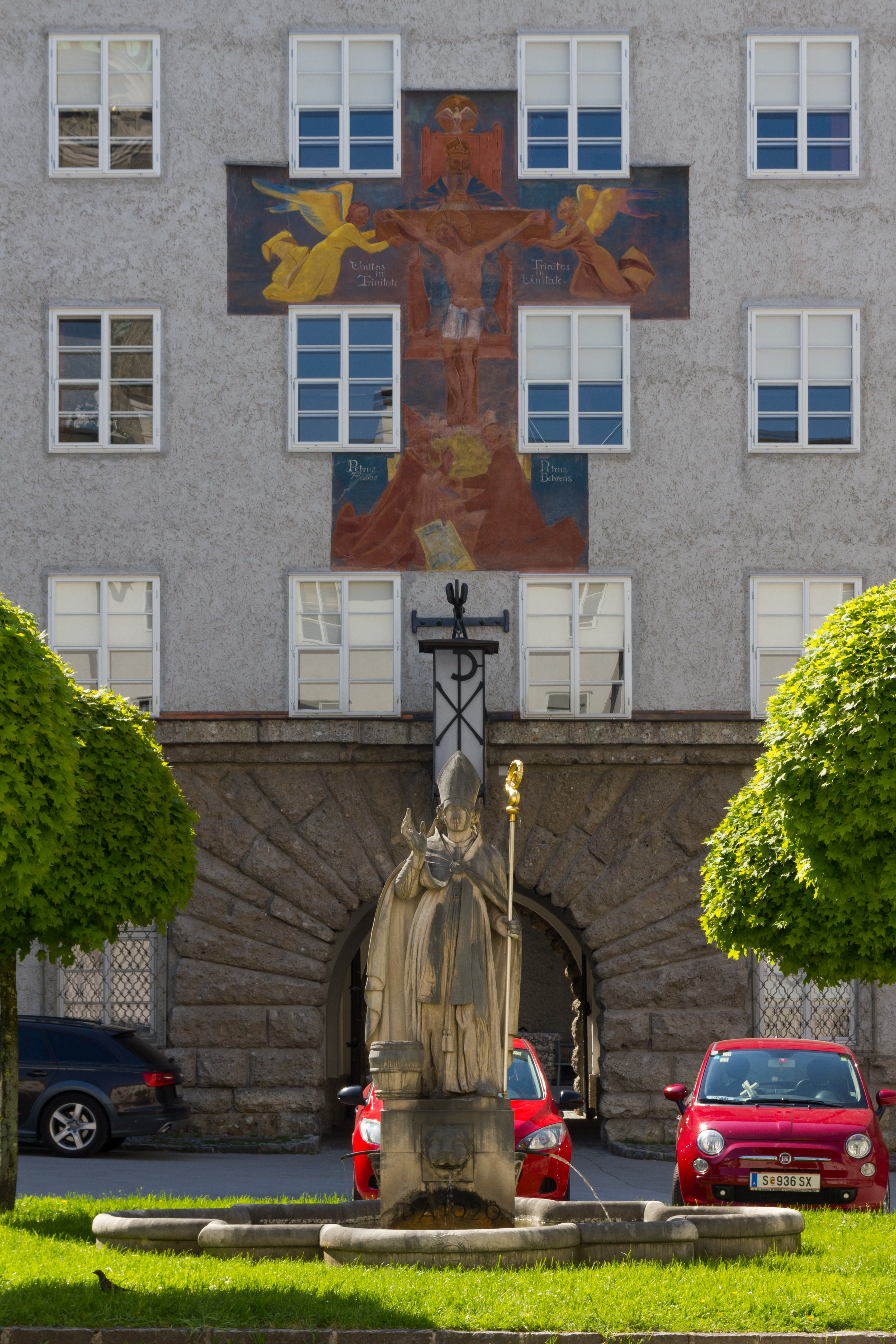 A statue and a fresco in the yard of Kolleg St. Benedikt, Salzburg